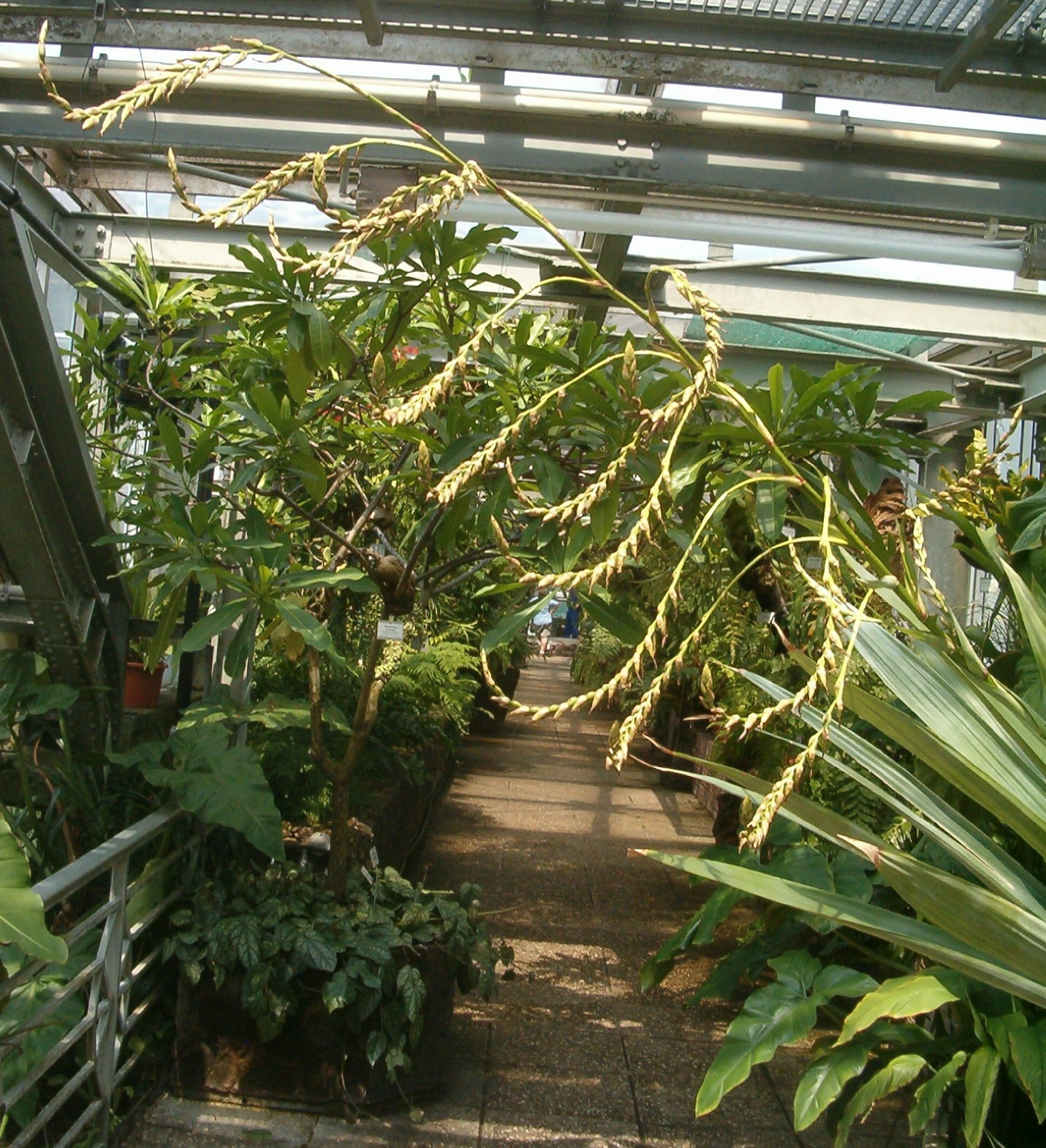 At Botanical Gardens Berlin-Dahlem Species Vriesea tuerckheimii